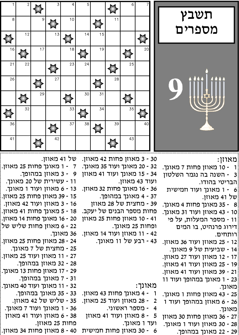 numbers crossword in hebrew